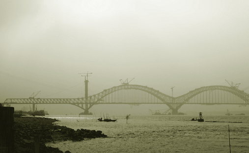 Dashengguan Bridge near Nanjing over the Yangtze river